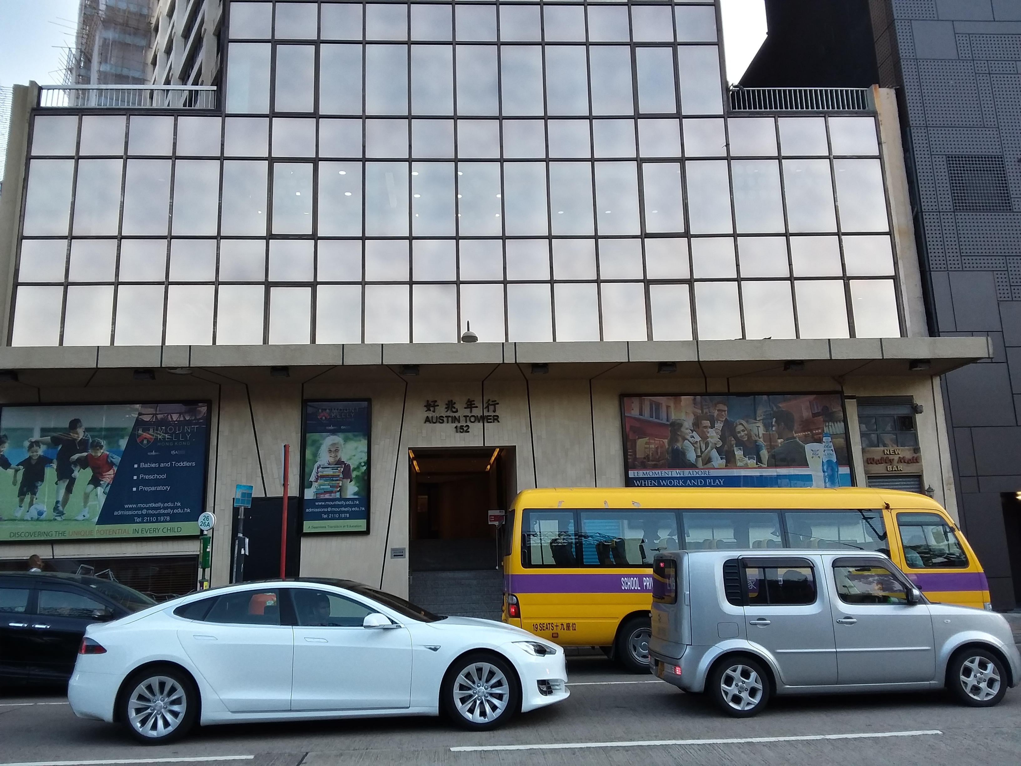 HK 佐敦 Jordan 柯士甸道 Austin Road in January 2019